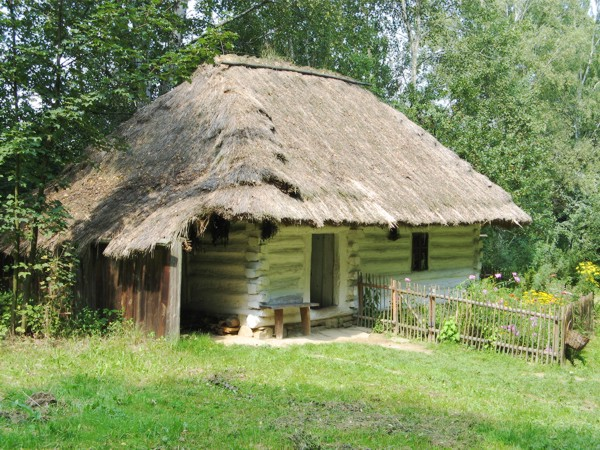 Skansen Museum in Nowy Sącz: poor cottage of Pogórzanie, PL